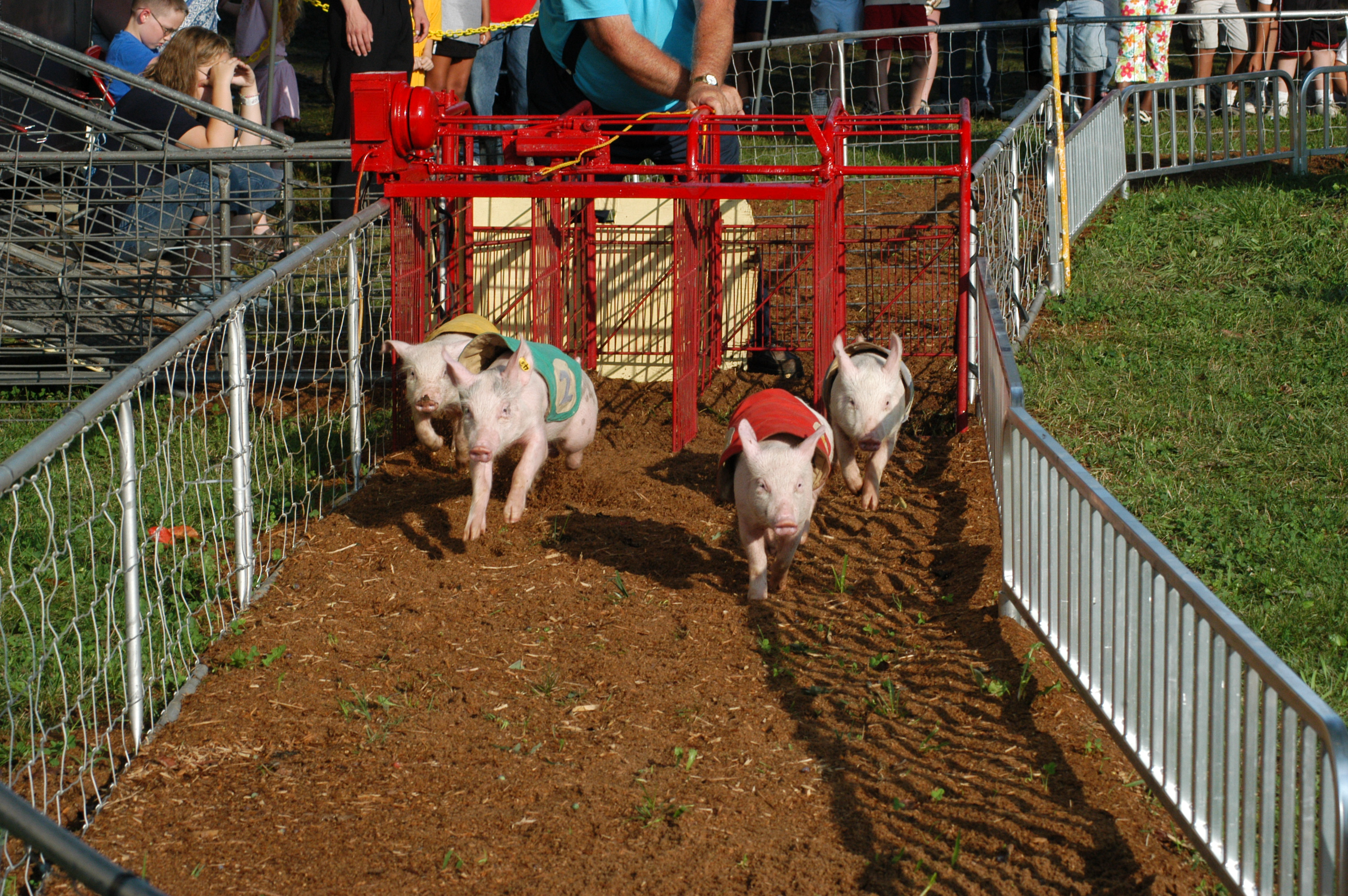 Picture of a pig race at the Montgomery County fair in Gaithersburg, MD. Taken on August 11, 2003 and released under the GNU FDL. pig racing